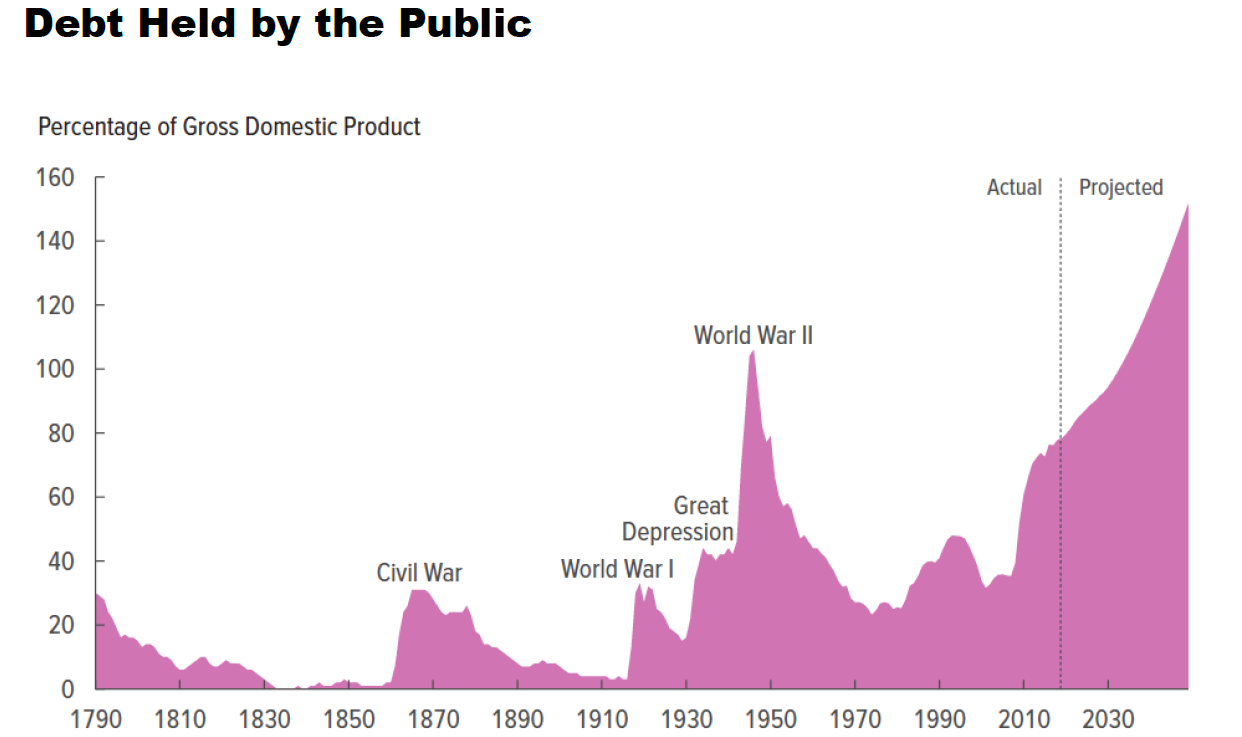 The amount of US debt, measured as a percentage of GDP, held by the public over time.